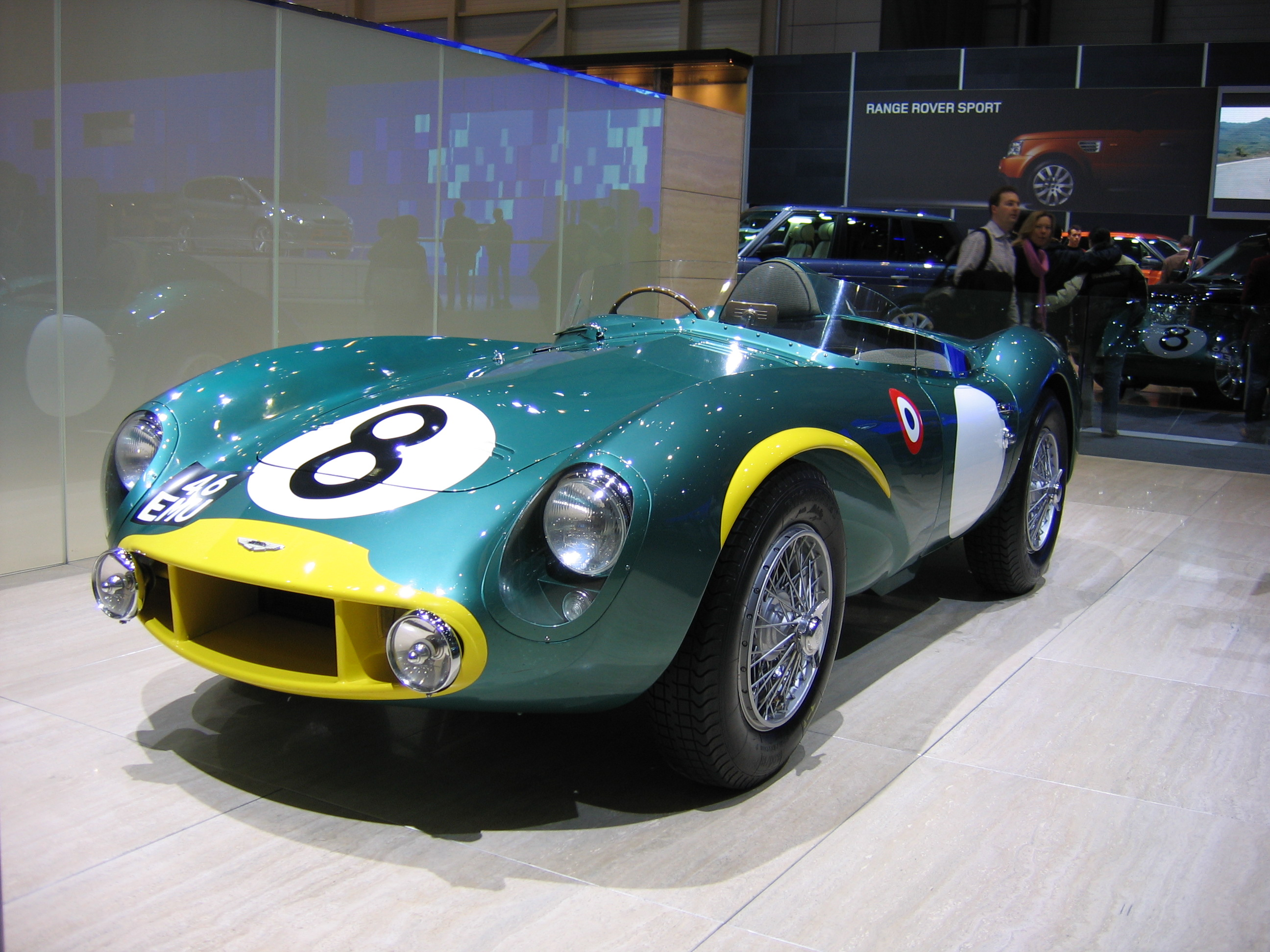 Aston Martin DB3S at the Geneva Motor Show in 2005